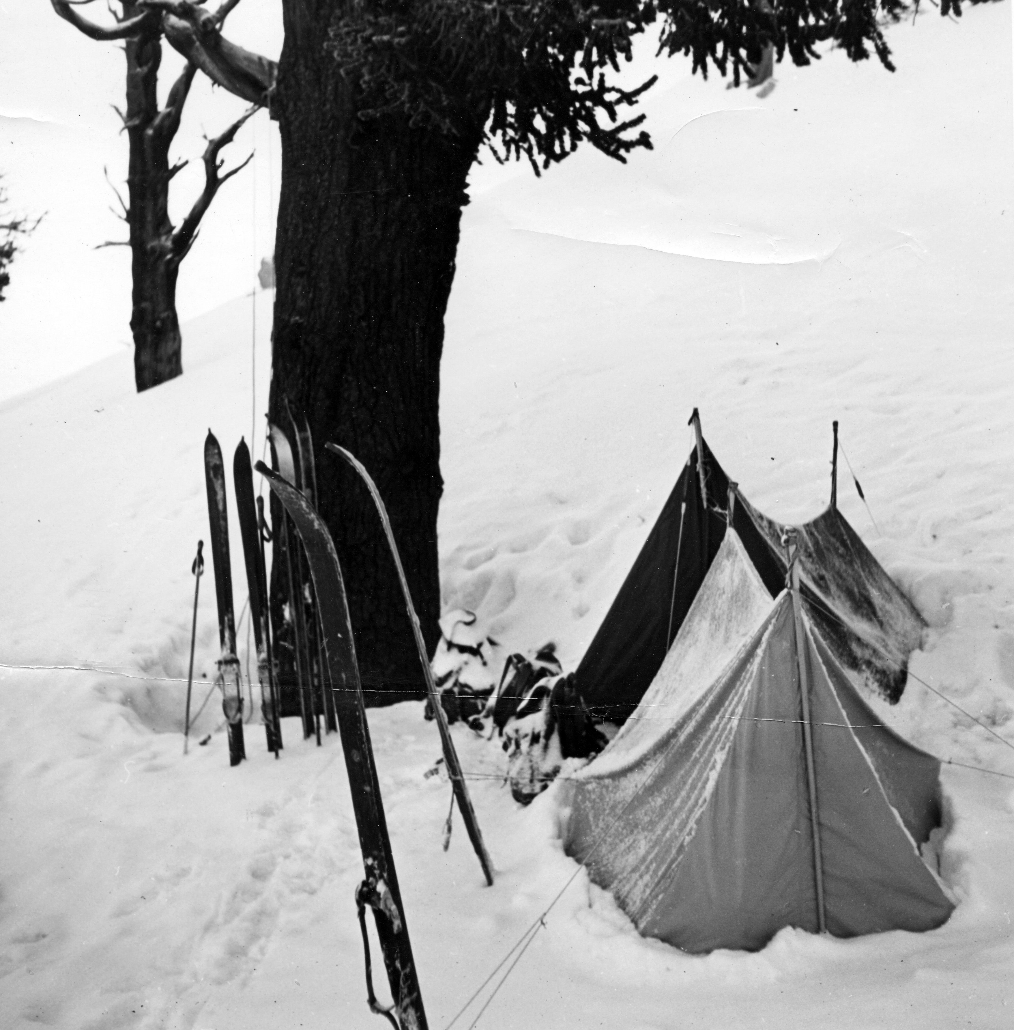 Timberline camp above Crabtree Meadow. Sierra Club ski trip. April 22-25, 1938. Photo by Robert K. Brinton.